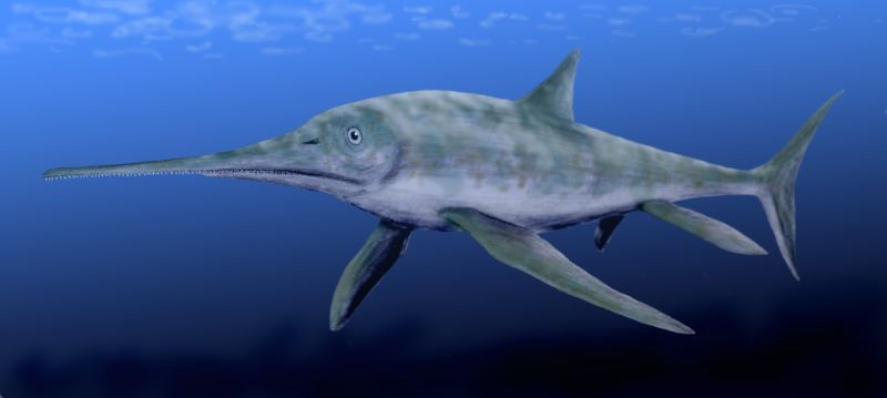 Eurhinosaurus longirostris, an Ichthyosaur from the Early Jurassic of Germany, pencil drawing, digital coloring